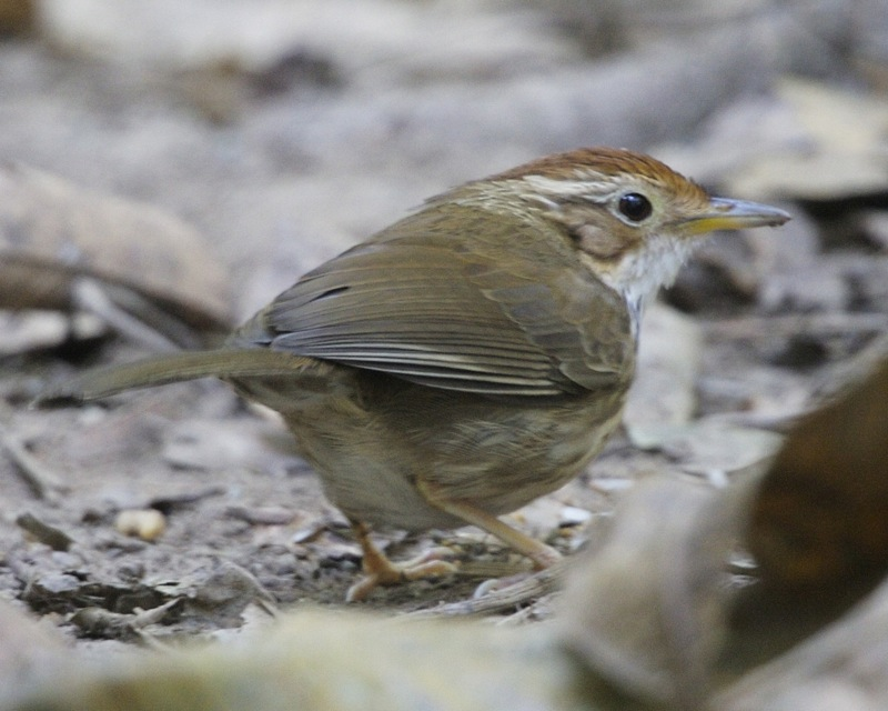 Puff-throated Babbler (Pellorneum ruficeps)